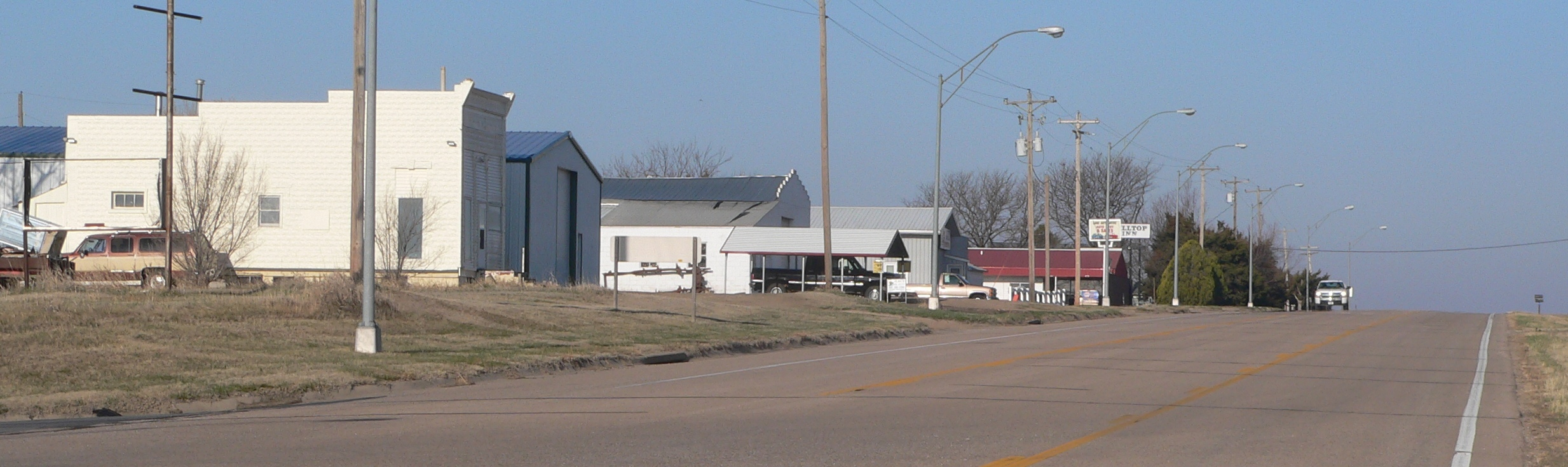 Republican City, Nebraska; seen from U.S. Highway 136.